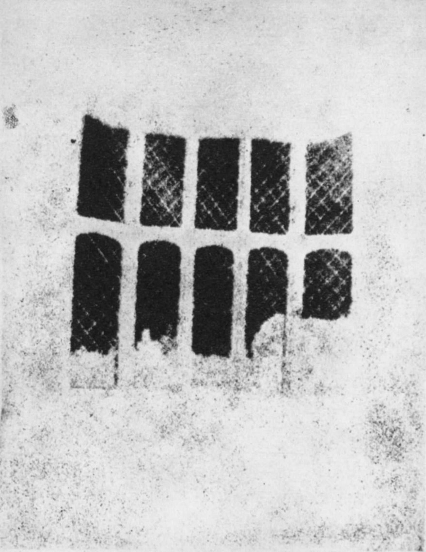 The oriel window of Lacock Abbey, Wiltshire, England. The earliest surviving paper negative photograph.